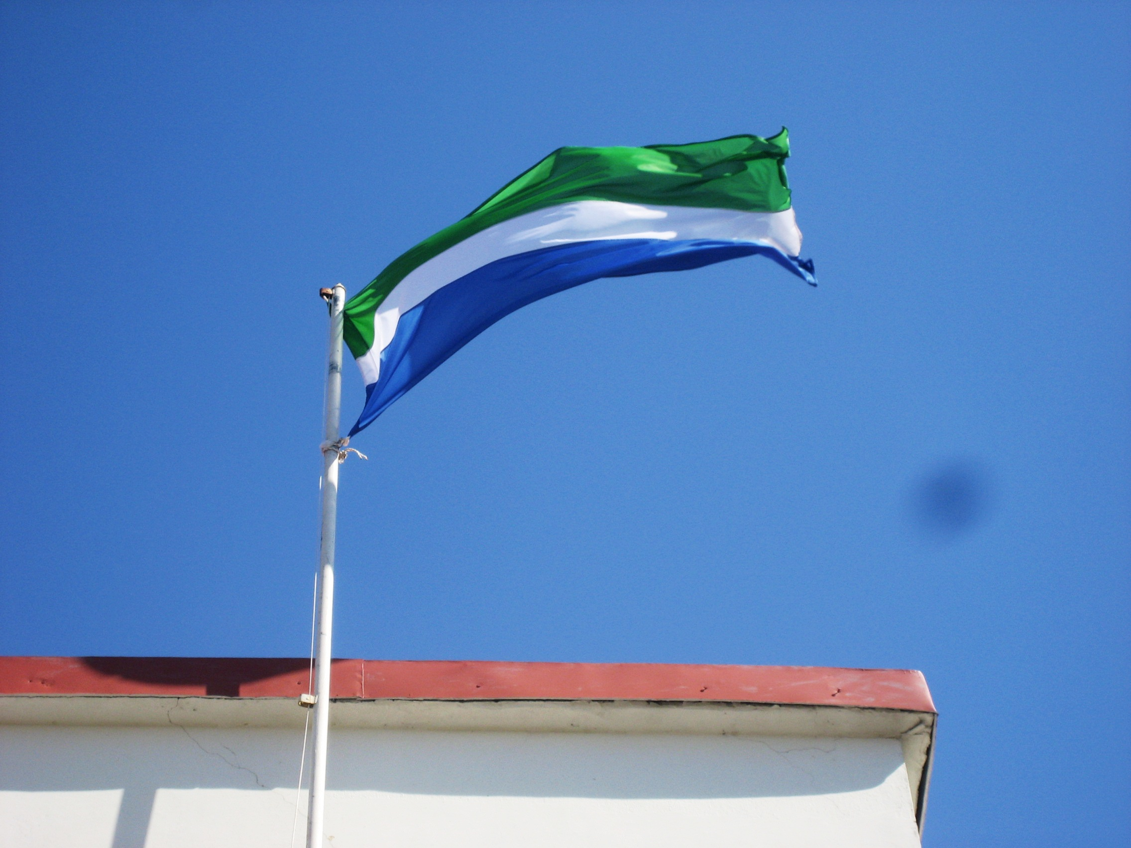 Livonian (Liv) flag